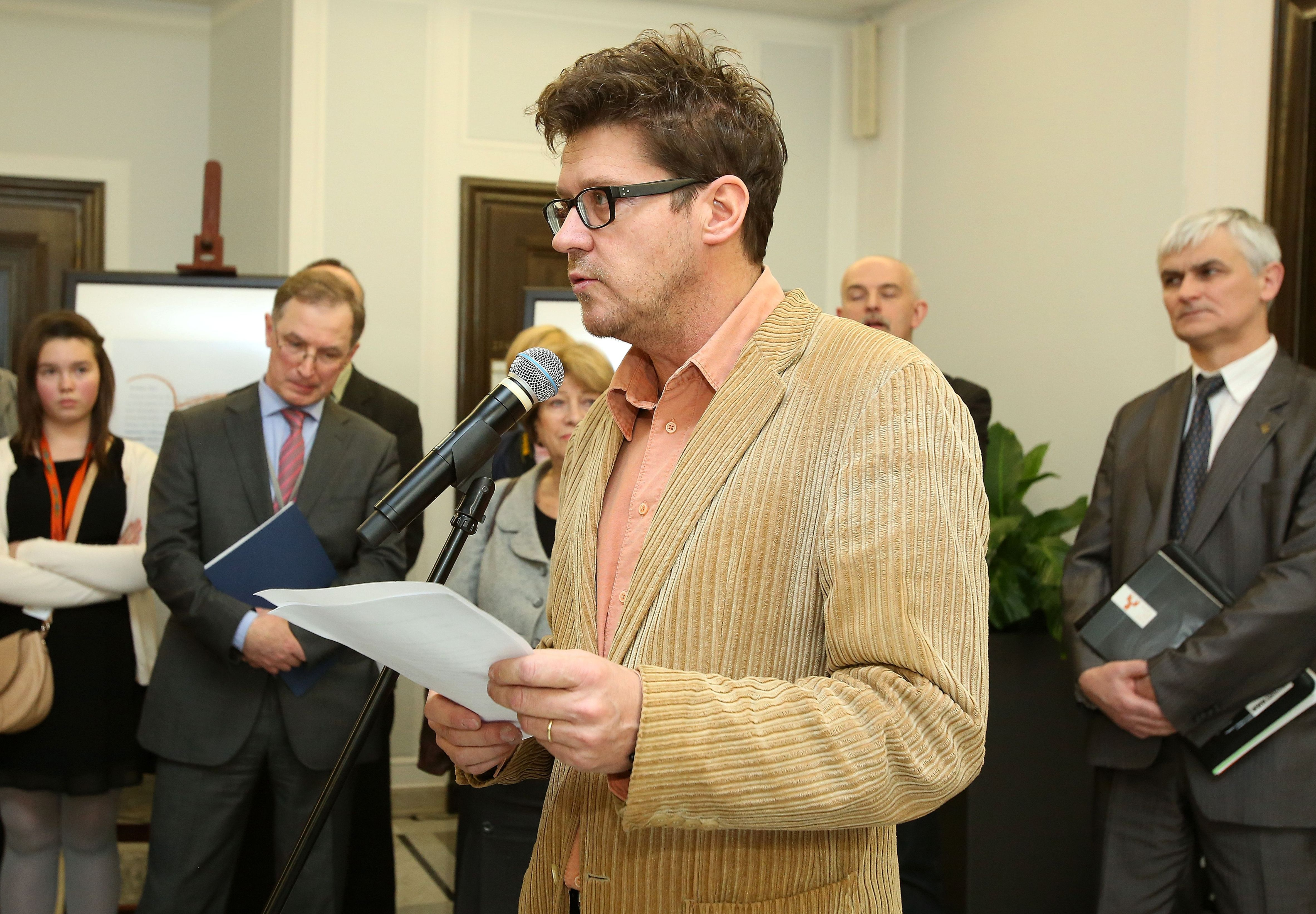 Wojciech Malajkat. "Letters to father" contest finals in the Polish Senate